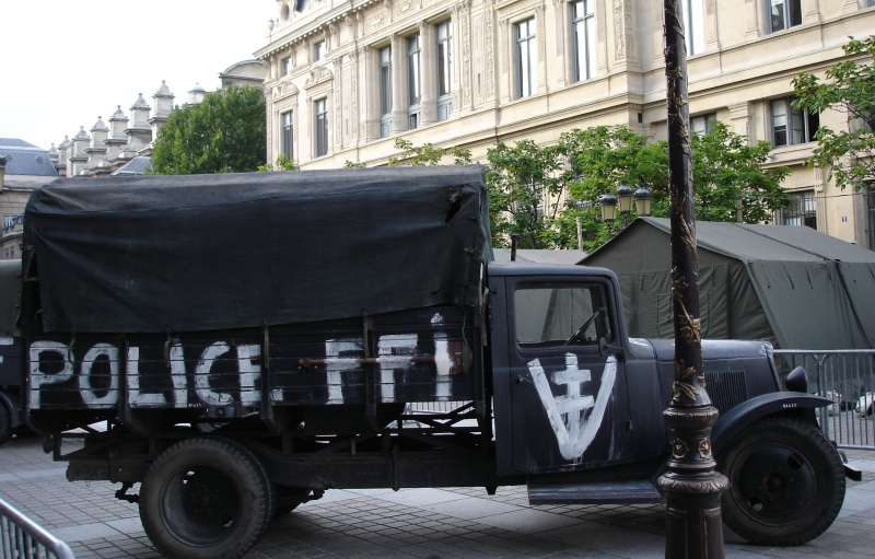 Truck of the FFI (French Forces of the Interior), exhibited during the 60th anniversary of the liberation of Paris.